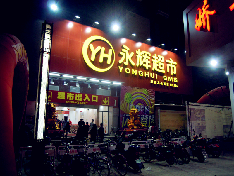 Yonghui Supermarket, Feixi County, Hefei City.